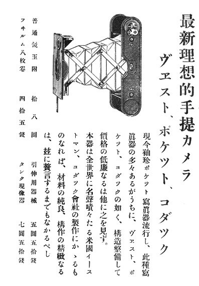 Advertisement in the January 1913 issue of Shashin Geppō (寫眞月報) magazine for the Vest Pocket Kodak (ヴヱスト、ポケット、コダック), as "the latest ideal handheld camera" (最新理想的手提カメラ)